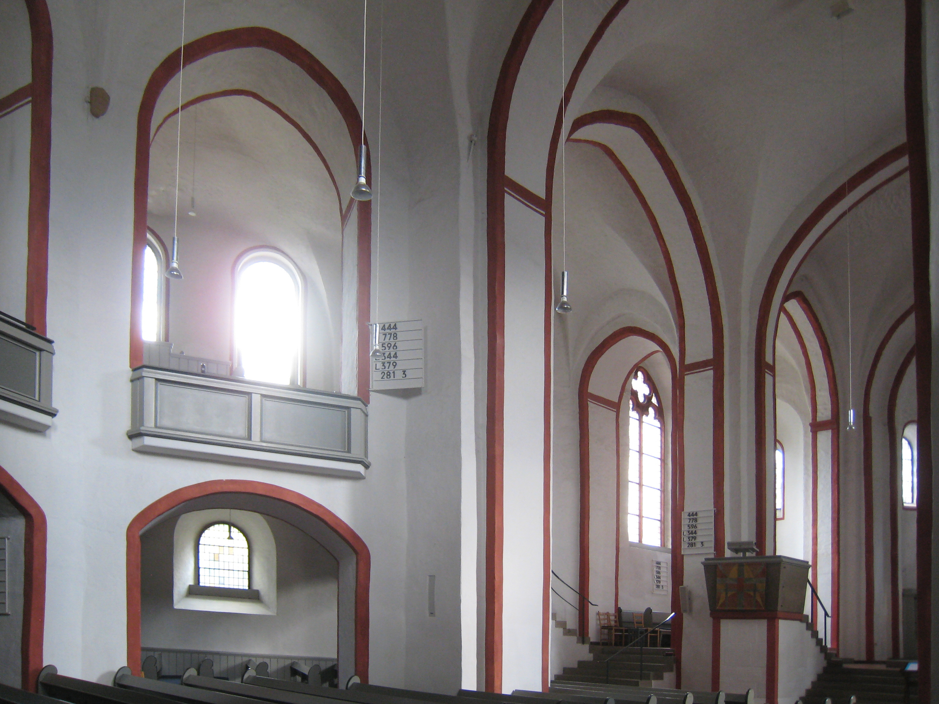 View through the nave to northeast This is a photograph of an architectural monument.It is on the list of cultural monuments of Siegen